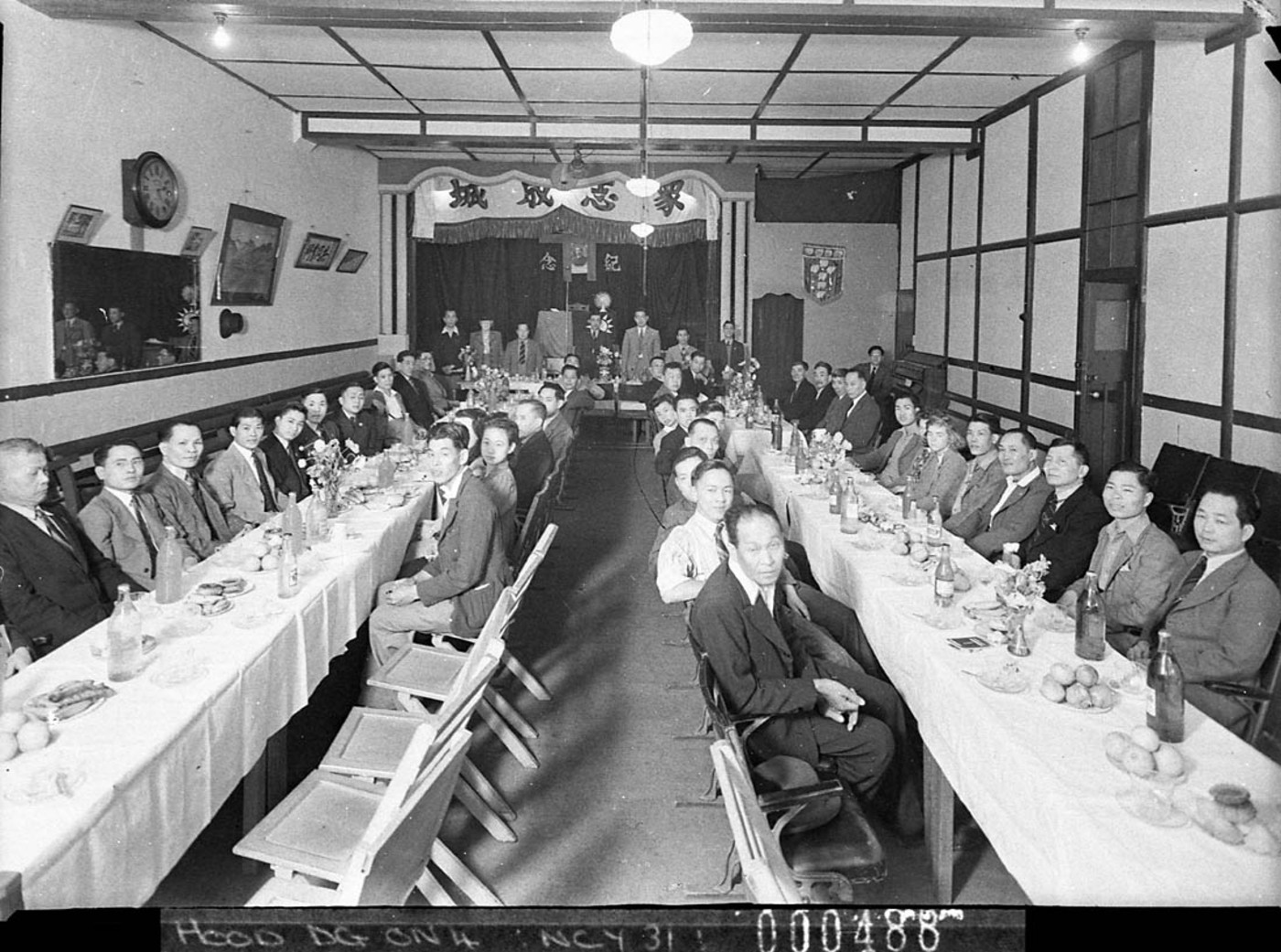 A Chinese Kuo Min Tang political luncheon (taken for Stanley Quon)